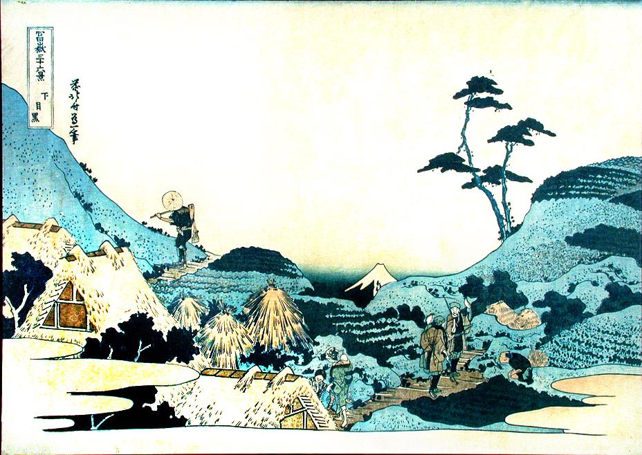 Landscape with two falconers from Hokusais Shimomeguro, a rural village in Edo.